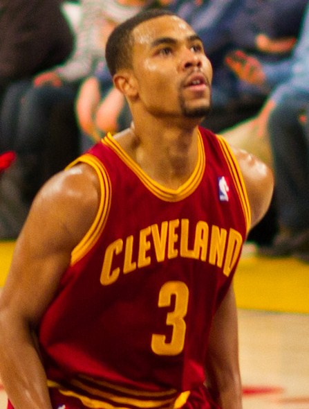 Ramon Sessions